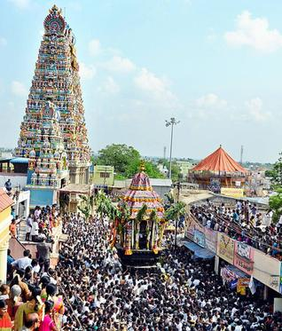 Apirl CAR festival in Kovilpatti shenbagavalli amman temple